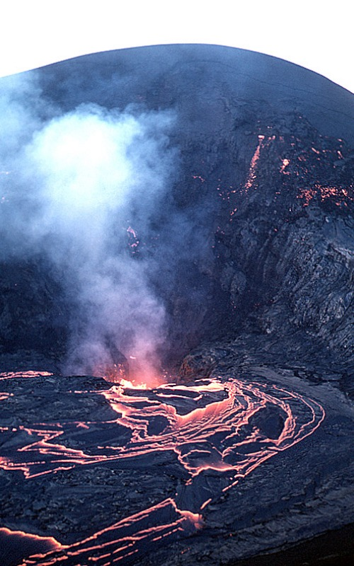 Kilauea Iki filling with lava from USGS site...